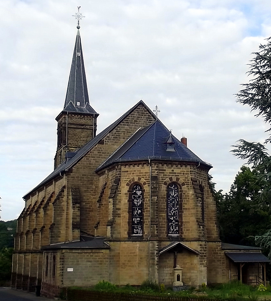 Exterior of the roman catholic church in Großrosseln, Saarland, Germany